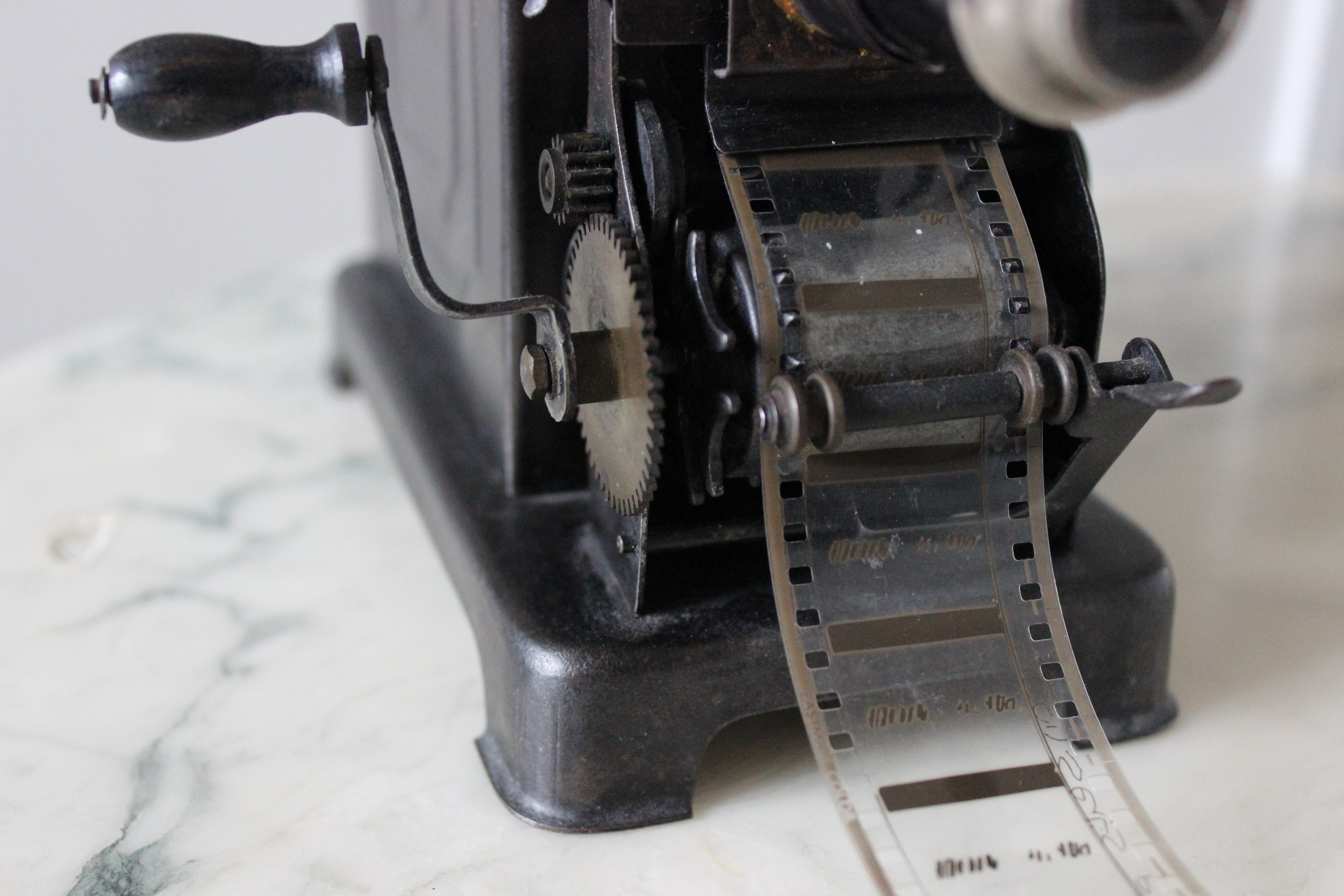 Movie 35 mm Films Home Projector with Maltese Cross Mechanism (1910)